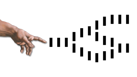 Visual representation of a causal merge.